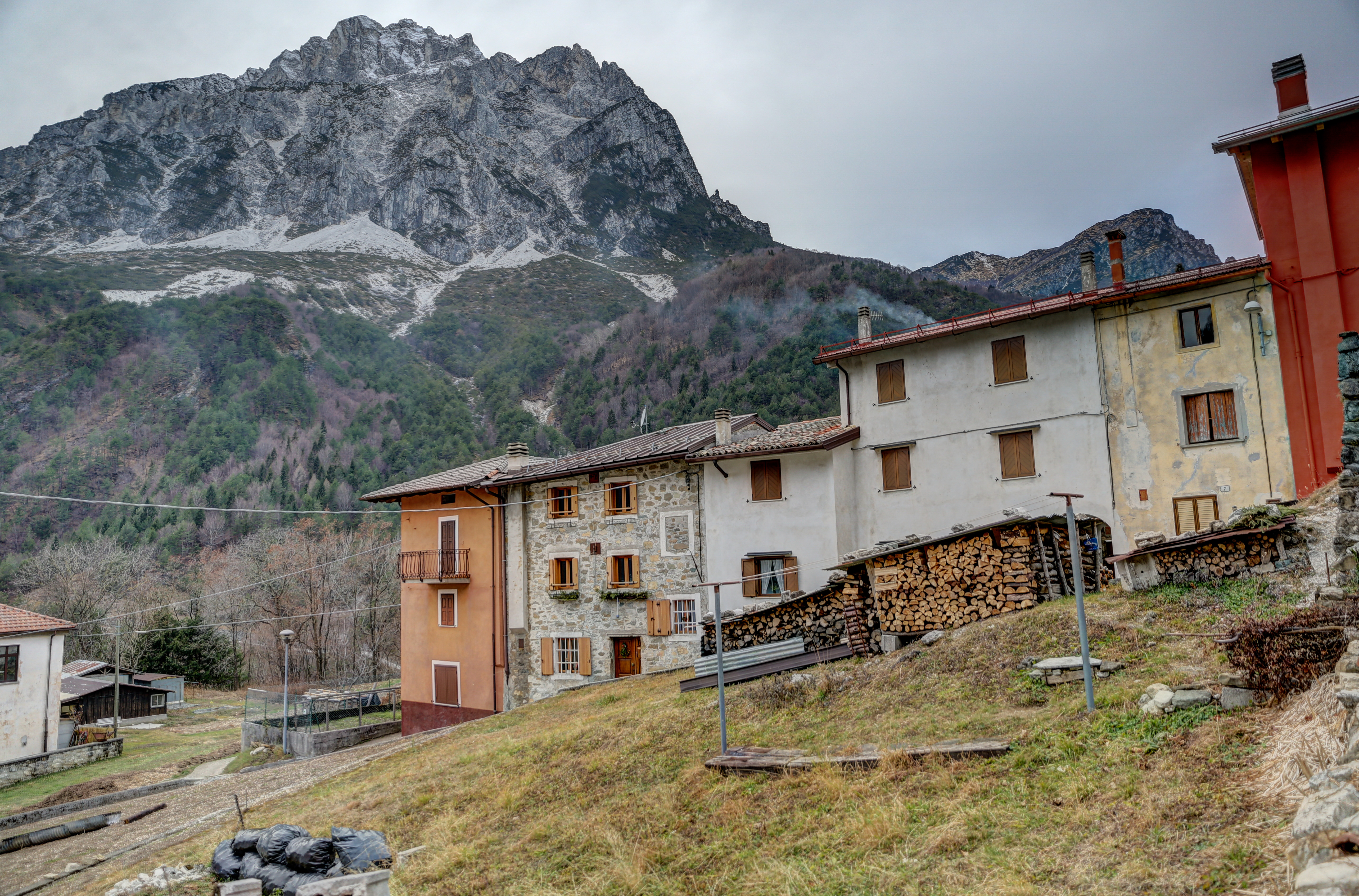 Dordolla in the Val d'Aupa in the Carnic Alps, community Moggio Udinese / Friuli-Venezia Giulia / Italy / EU. View towards the northwest. In the background the Creta Grauzaria.